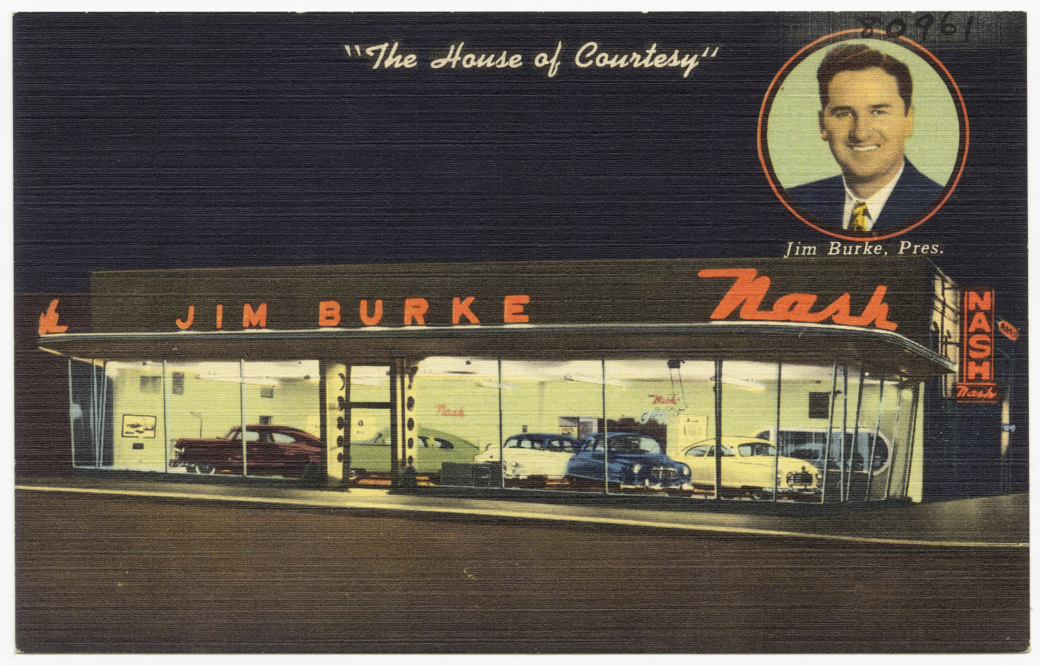 File name: 06_10_012826 Title: "The House of Courtesy," Jim Burke Nash, Inc. Created/Published: Date issued: 1930 - 1945 (approximate) Physical description: 1 print (postcard) : linen texture, color ; 3 1/2 x 5 1/2 in. Genre: Postcards Subject: Commercial facilities Notes: Title from item. Collection: The Tichnor Brothers Collection Location: Boston Public Library, Print Department Rights: No known restrictions